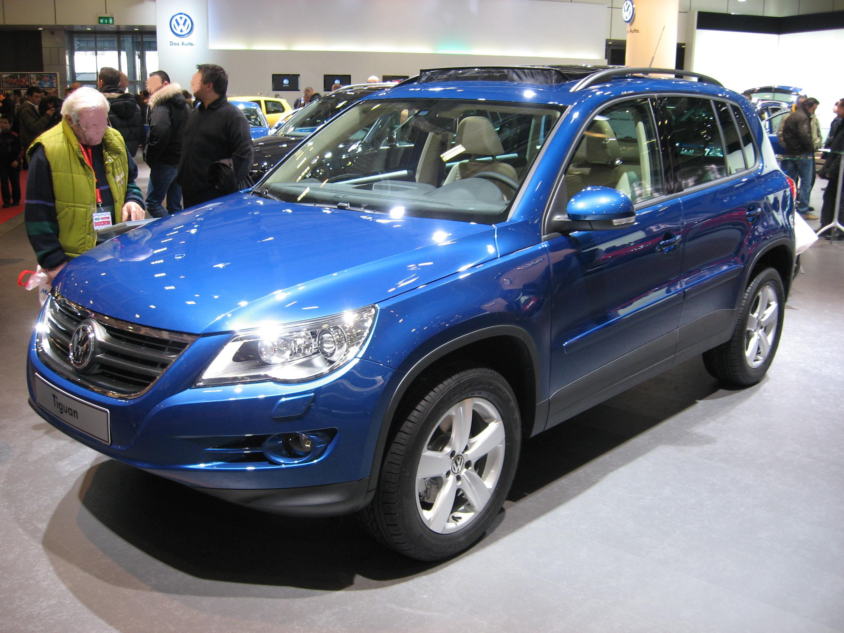 Subject:Volkswagen Tiguan Author:Luc106 Date:December 13th, 2007 Event:Motor Show Bologna 2007 Place/Country: Bologna, Italy I release all rights in the public domain.